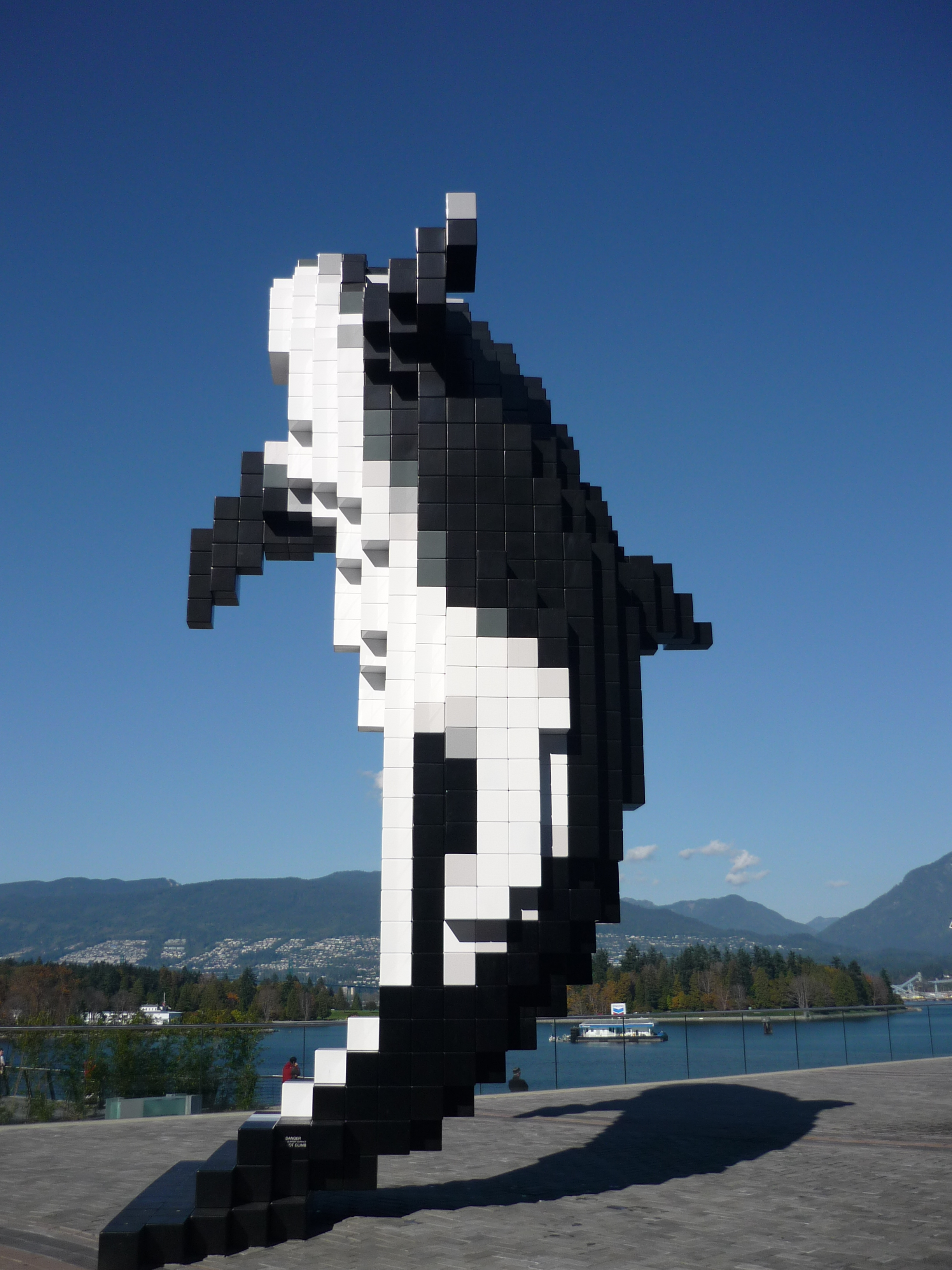 Digital Orca by Douglas Coupland with view of Stanley Park